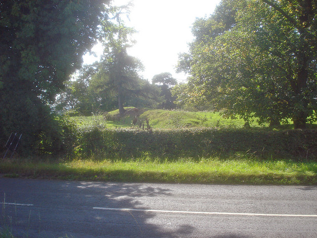 Remains of Greasley Castle Nicholas de Cantelupe, Lord of Ilkeston in Derbyshire and Lord of Greasley in Nottinghamshire, was a man of great wealth, a fearless warrior and a friend and confidential of Edward III. He was knighted in 1326 and in 1340 he obtained the King's permission to fortify his manor house adjoining Greasley church, which then became Greasley Castle. Greasley Castle Farm now stands on the site, but in the outbuildings are remains of the old castle wall. Also, traces of the moat and ramparts can be seen from the B600, such as here.